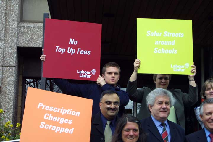 Rhodri Morgan campaigning in the 2003 Assembly elections on a campaign not to introduce top up fees for Higher Education students - a policy of the Labour government at Westminster